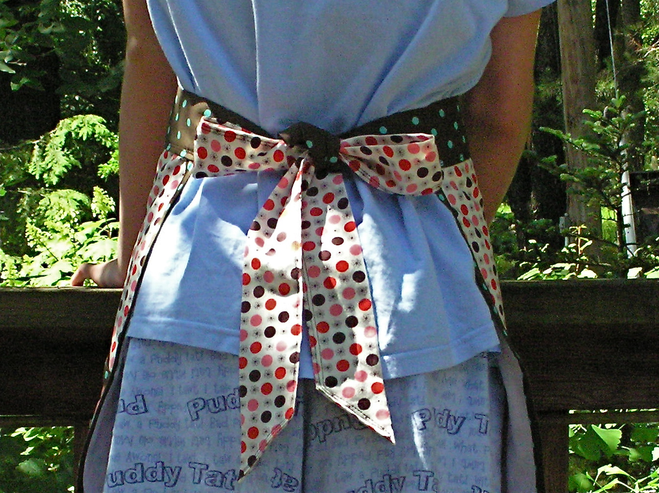 Woman from behind, wearing apron tied in bow.